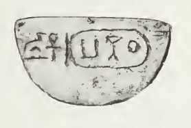 Picture of a foundation deposit plate bearing the name of pharaoh Wahkare (Wahkare Bakenranef, = Bocchoris). Alabaster, 24th dynasty, Third Intermediate Period.